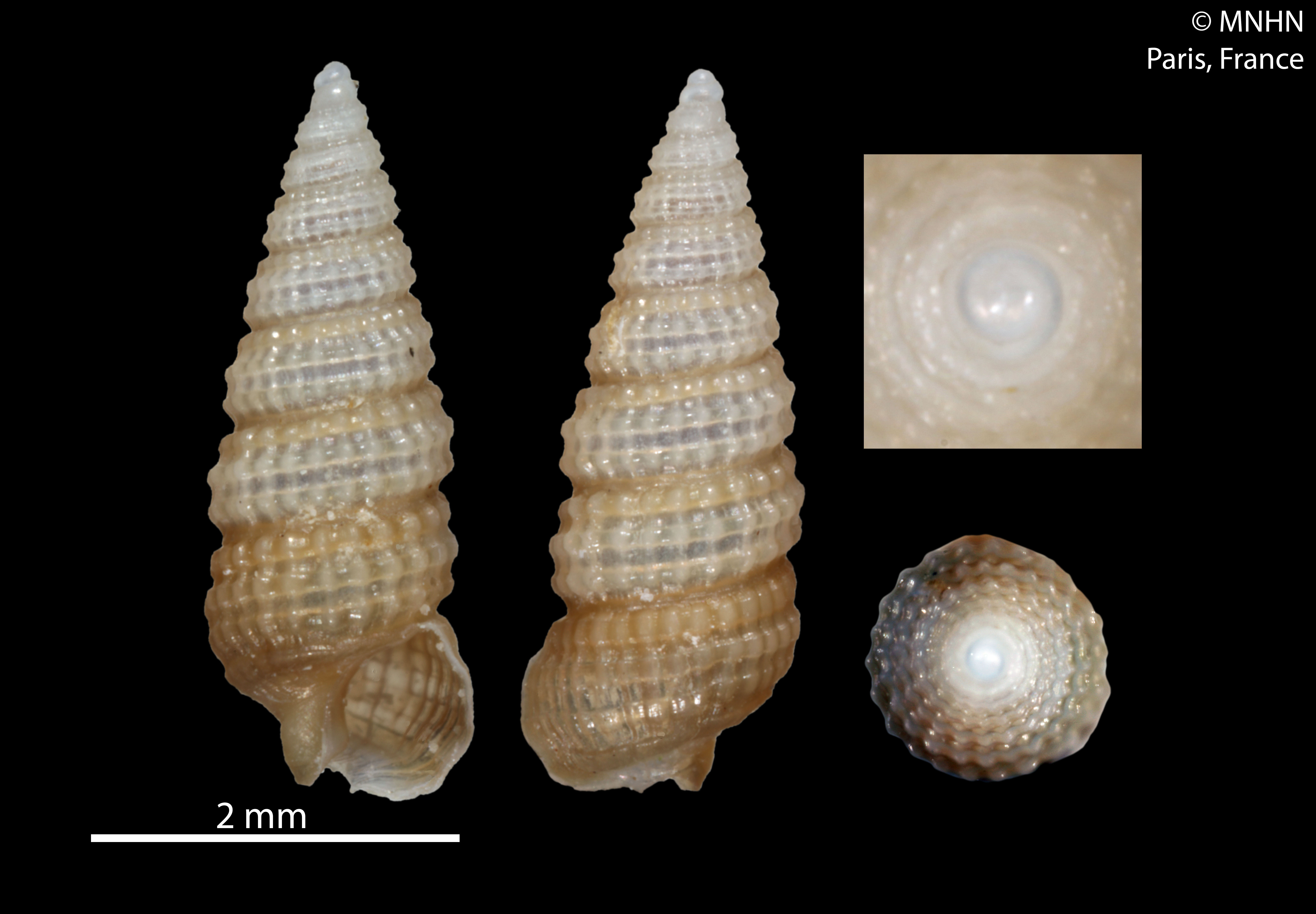 PRESERVED_SPECIMEN; Cerithiopsis morelosensis Rolán & Fernández-Garcés, 2010; Type status: PARATYPE; Identified by: Rolàn E. & Fernandez-Garcés R.; Individual count: 1; Event date: N/A